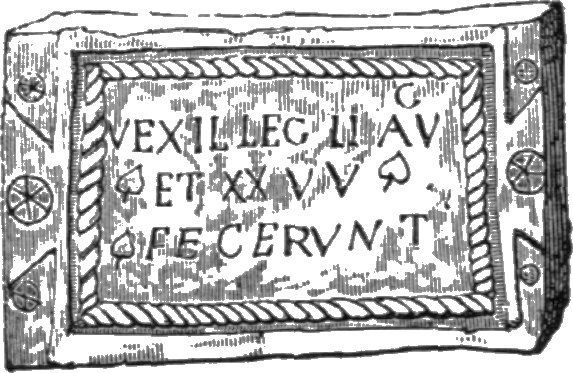 Inscription of the Second Legion Augusta and of the Twentieth Legion Valeria Victrix, found 1779 in the Roman fort at Maryport (Senhouse Museum).